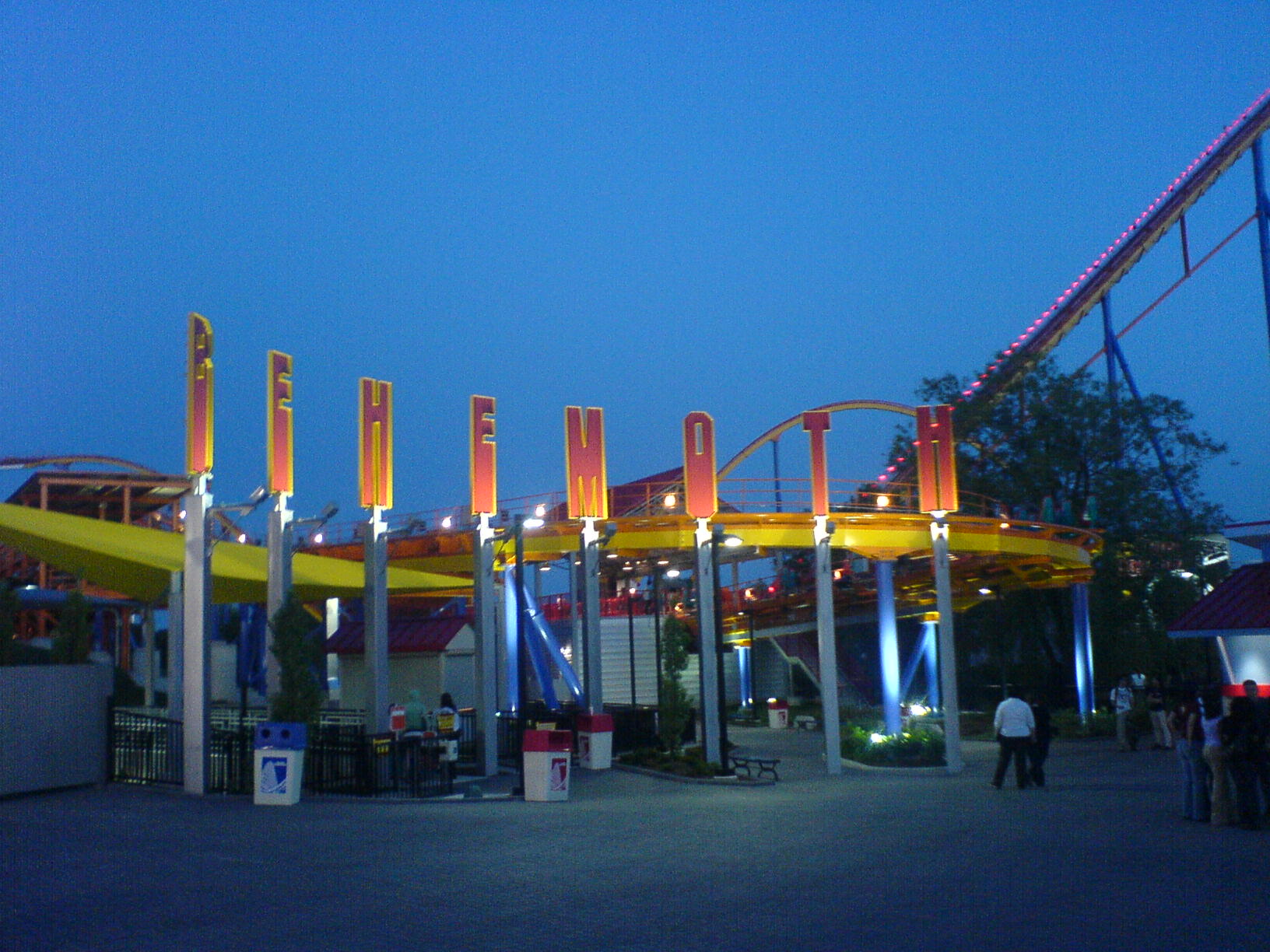 This is a photo of the Behemoth roller coaster at Canada's Wonderland.